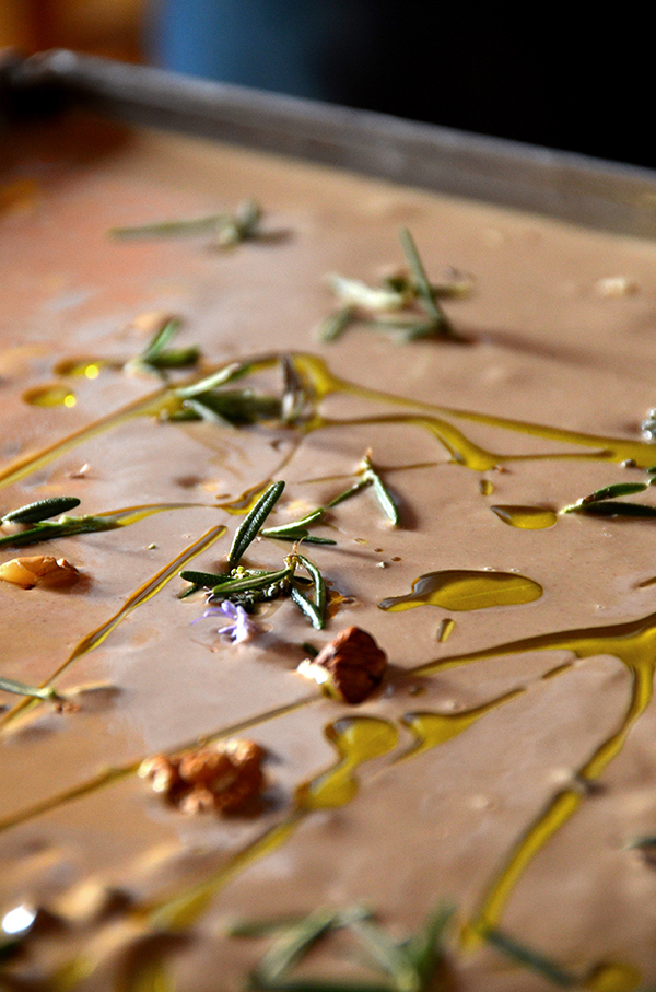 Preparation of castagnaccio with chestnut flour from Ugo Bugelli, castanicoltore in Piteglio, Tuscany - Italy.